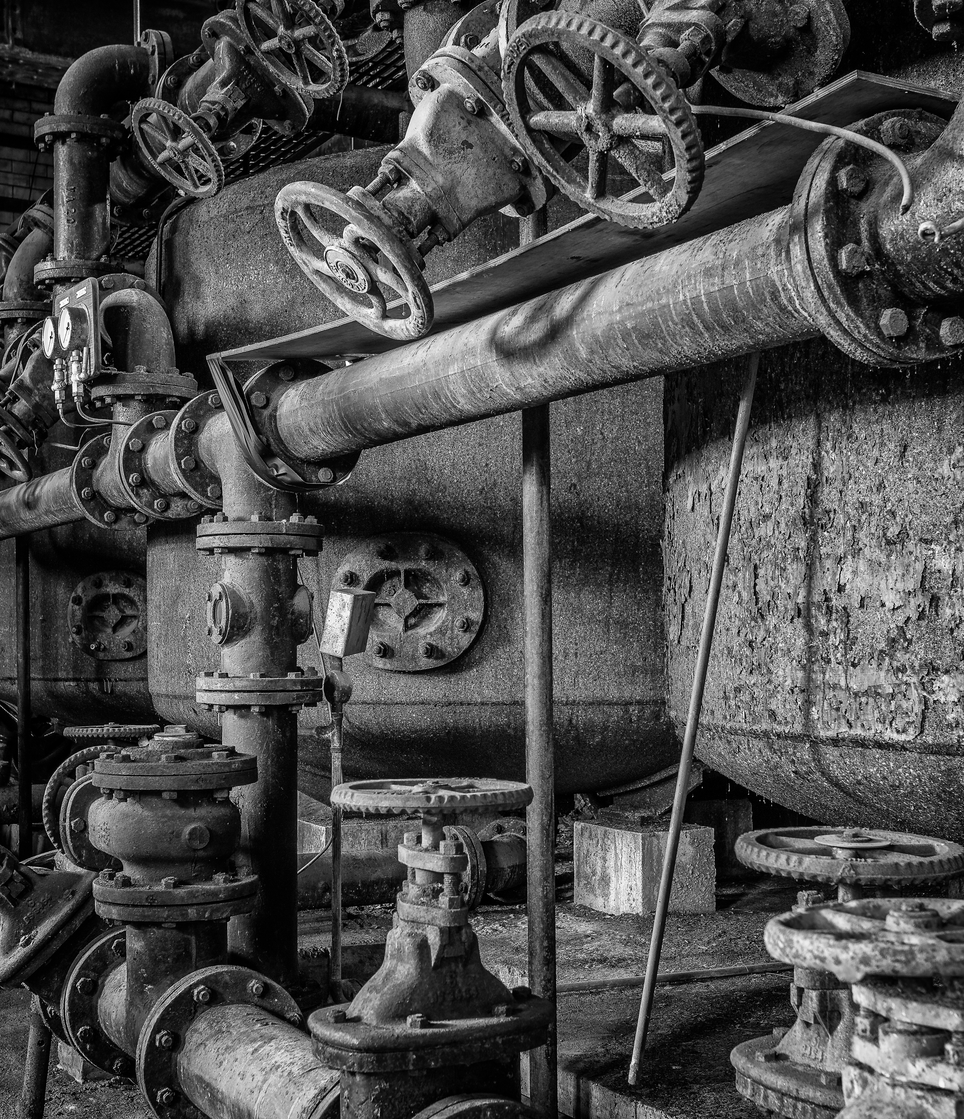 Victorian valves at Victoria Baths, Manchester